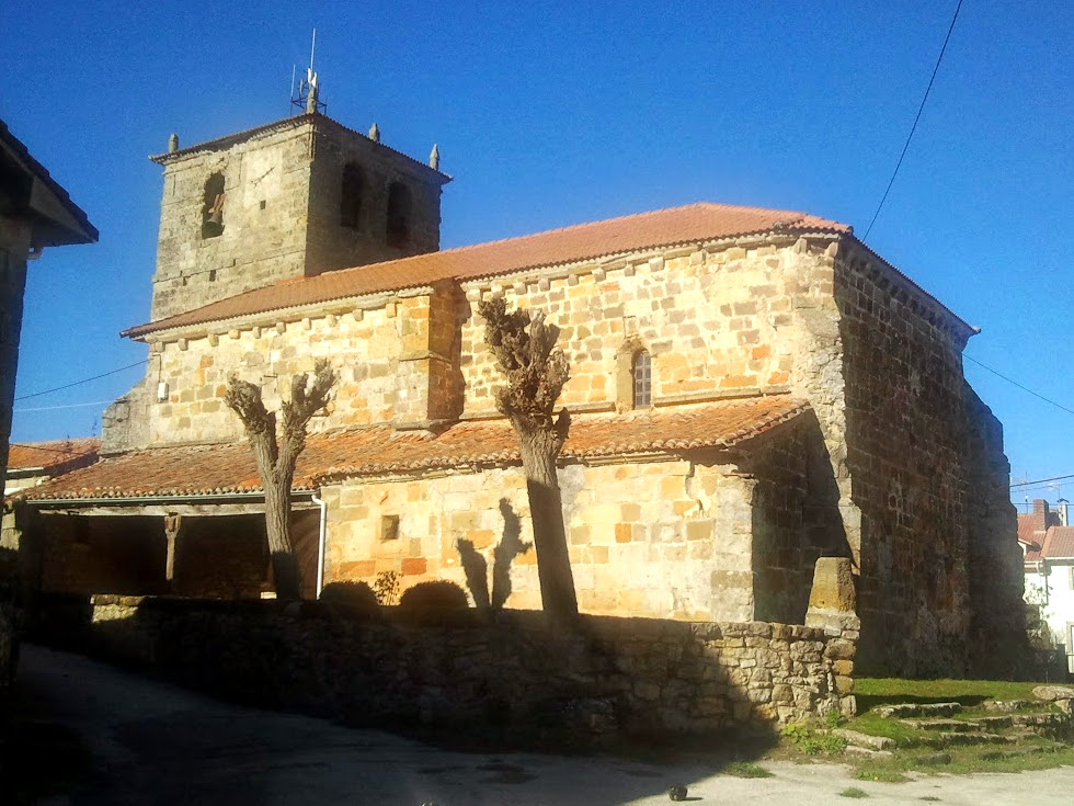 Church of the Assumption, in the village of Espinosa de Bricia. Cantabria, Spain